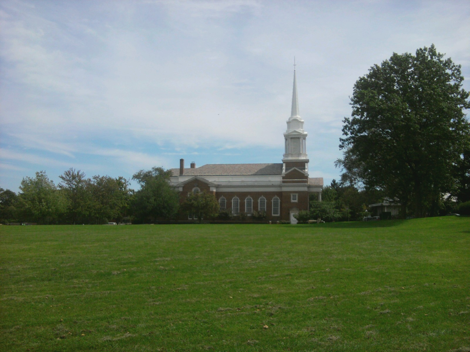 The Vorhees Chapel is a notable landmark on the Douglass campus of Rutgers. Douglass was founded as an all-women's campus in 1918, but now houses co-ed dorms.